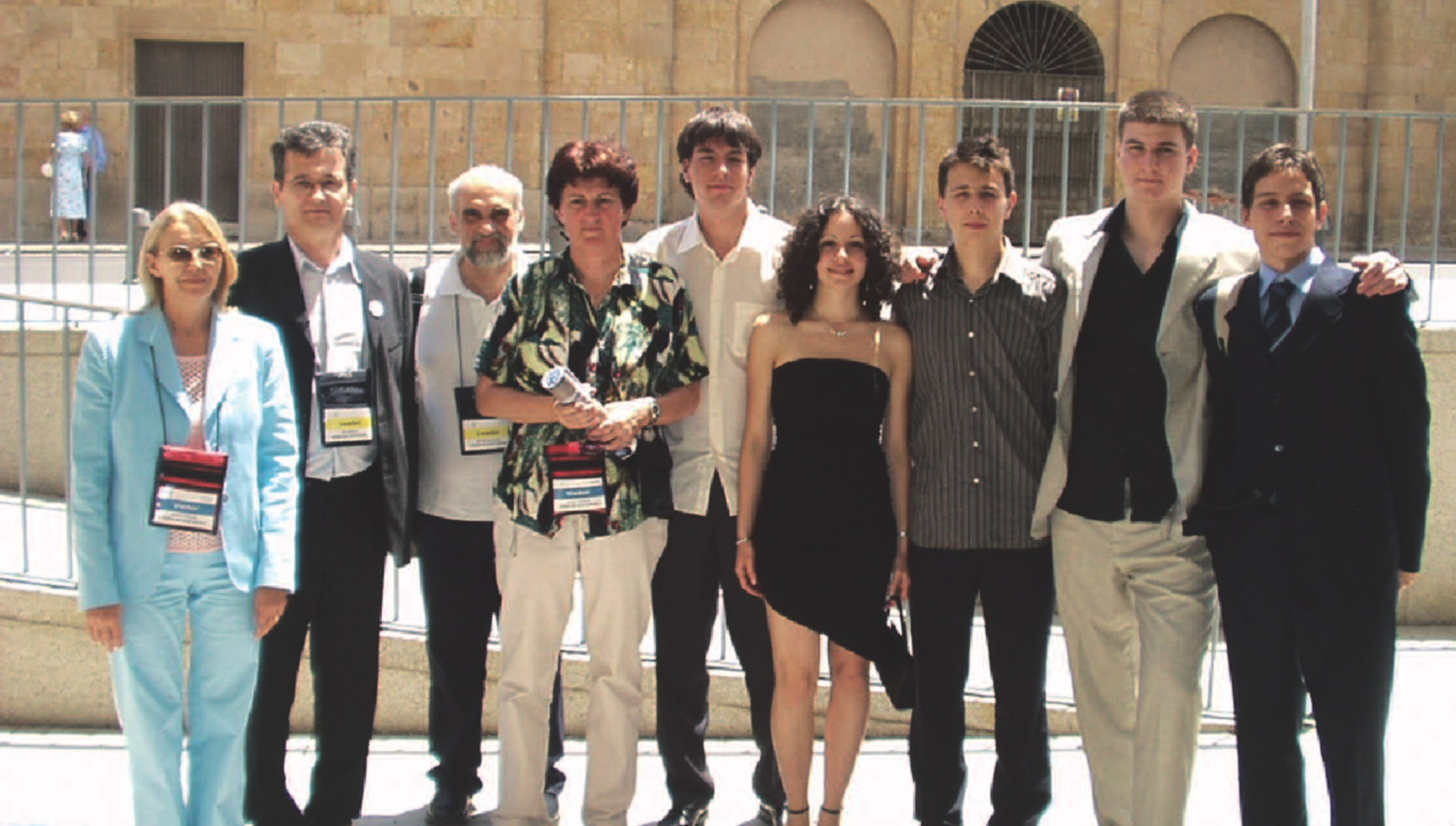 Serbian team at the IPhO 2005 in Salamanca with team leaders and teachers. Professor Nataša Čaluković, with students of Mathematical Gymnasium Belgrade, at International Physics Olympiad. Also on this picture: professor dr Mićo Mitrović and prof. dr Đorđe Spasojević, both from Faculty of Physics, University of Belgrade.